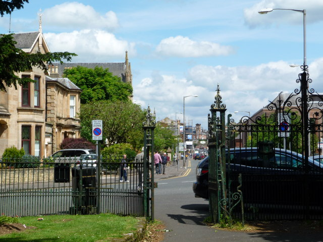 Looking towards John Finnie Street from the gates of Howard Park